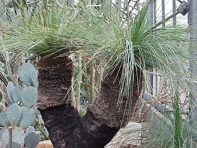 Species: Xanthorrhoea preissii Family: Xanthorrhoeaceae Image No. 2